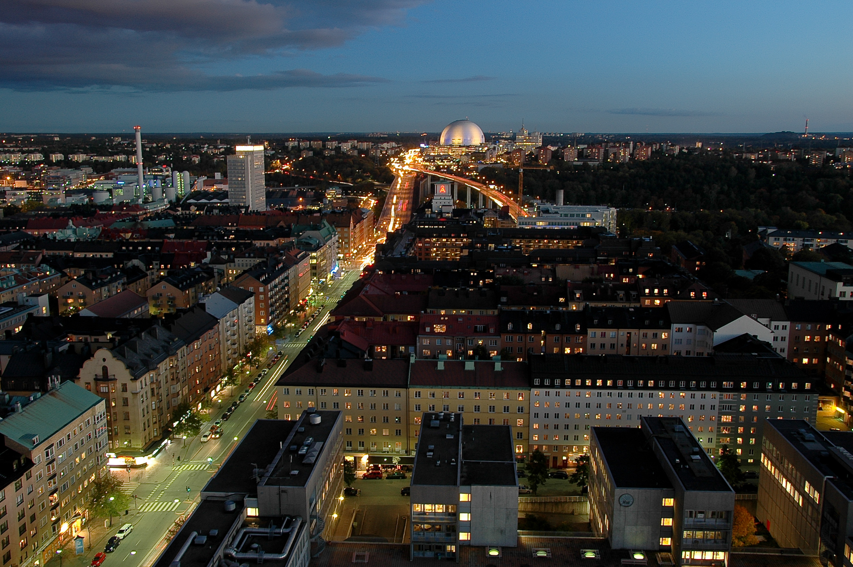 View south from Skatteskrapan on Södermalm, Stockholm.